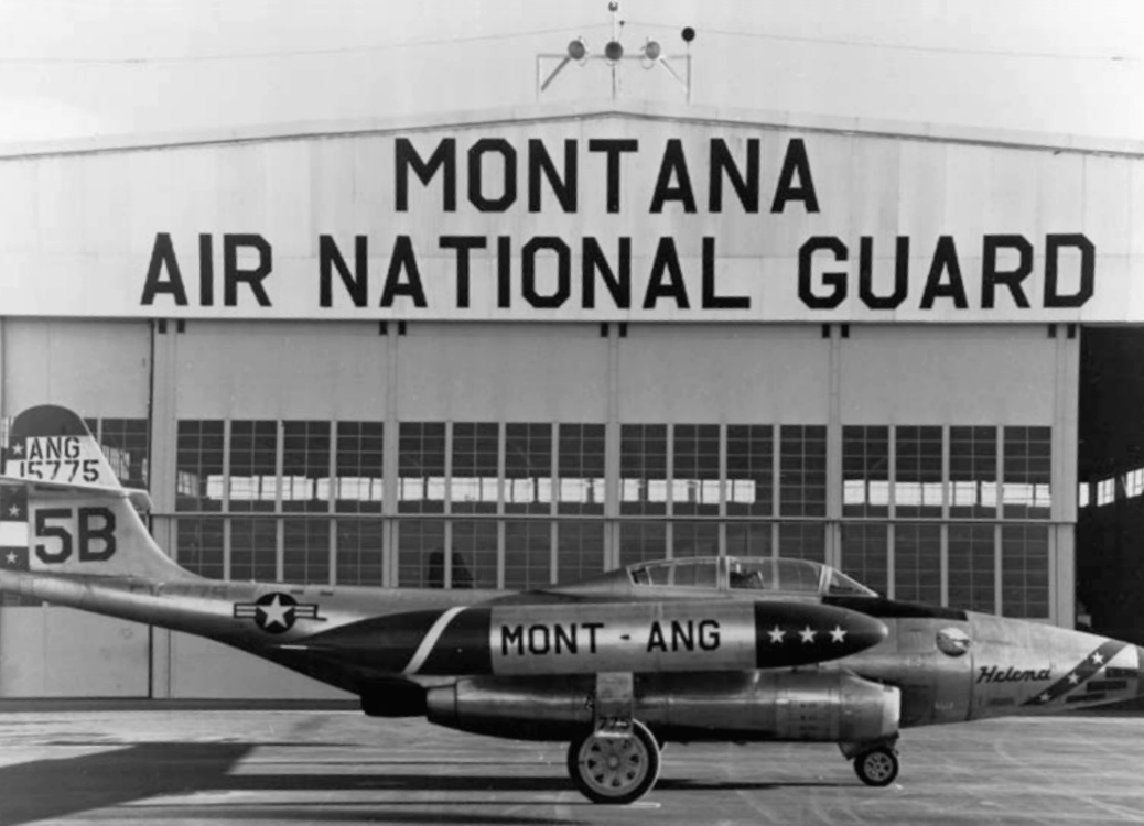 A U.S. Air Force Northrop F-98C Scorpion (s/n 51-5775) from the 186th Fighter Interceptor Squadron, 120th Fighter Group, Montana Air National Guard, at Great Falls, Montana (USA). The 120th FG flew the F-89 from 1958-1966.